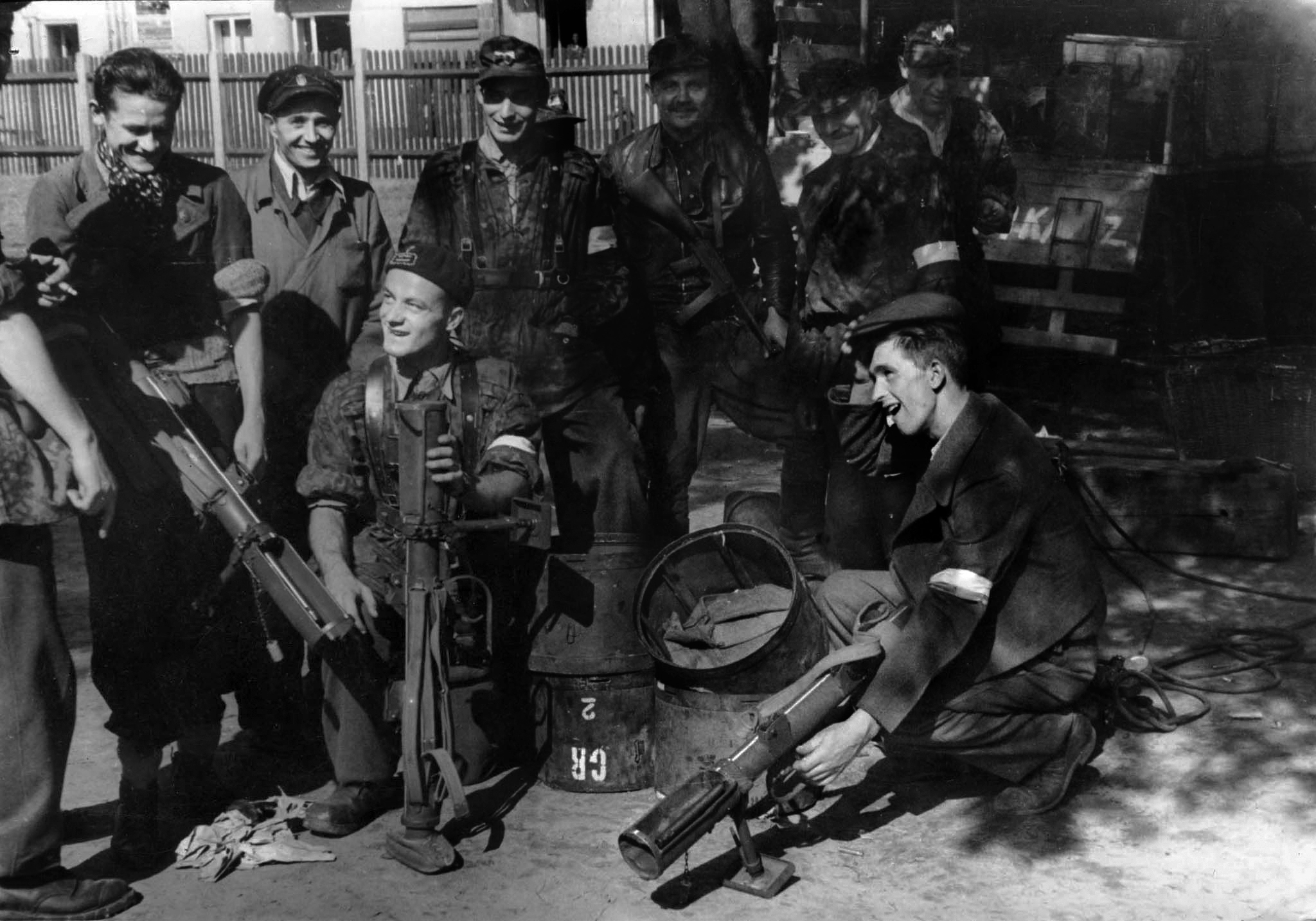 WarsawUprising: Group of soldiers from Battalion "Czata 49", in Wola district, inspect English Anti-tank weapons "PIAT". Andrzej Maringe "Andrzej" is standing third from the left and Stanisław Potworowski "Potwór" is sitting in the middle.